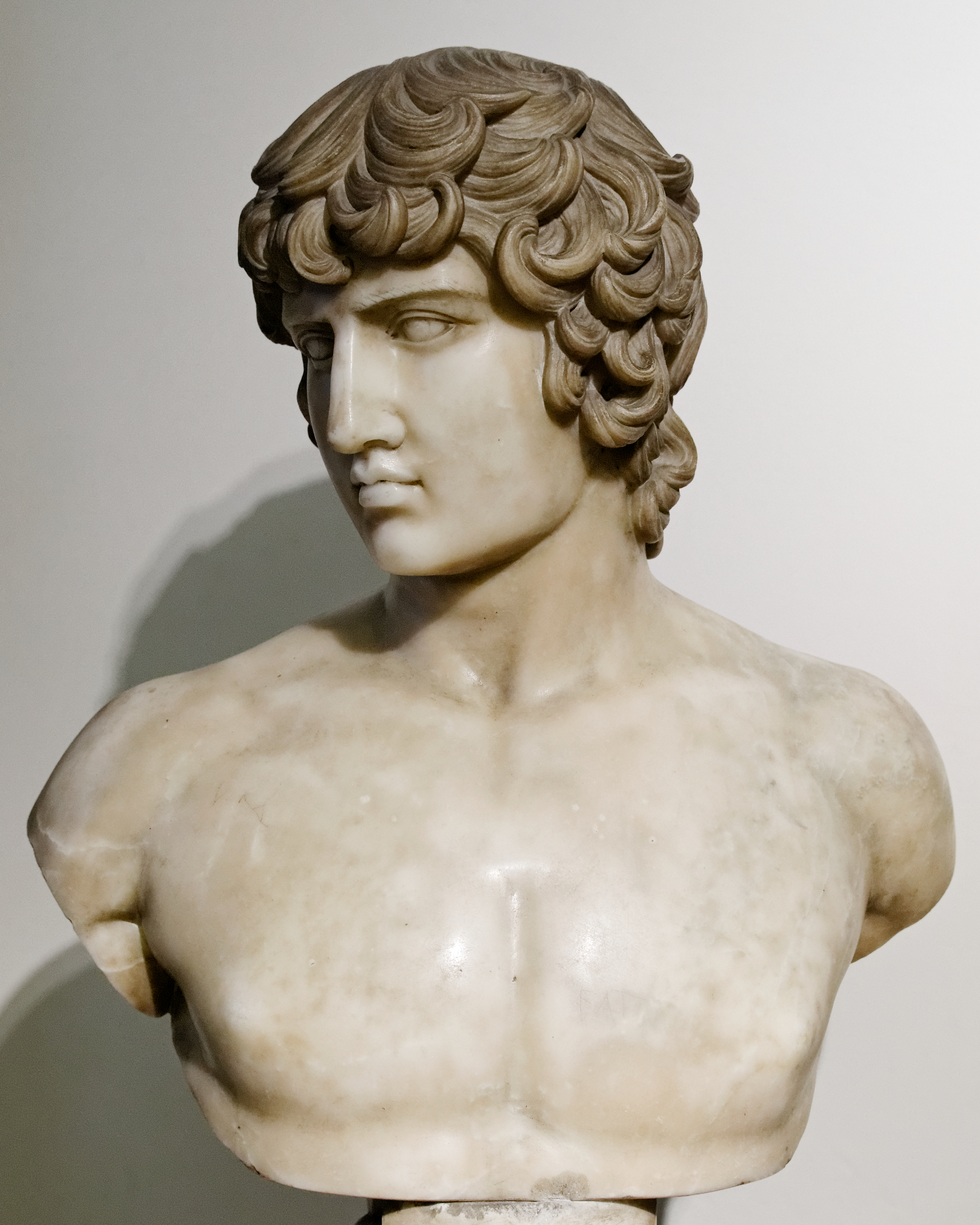 Bust of Antinous (ca. 110-130)